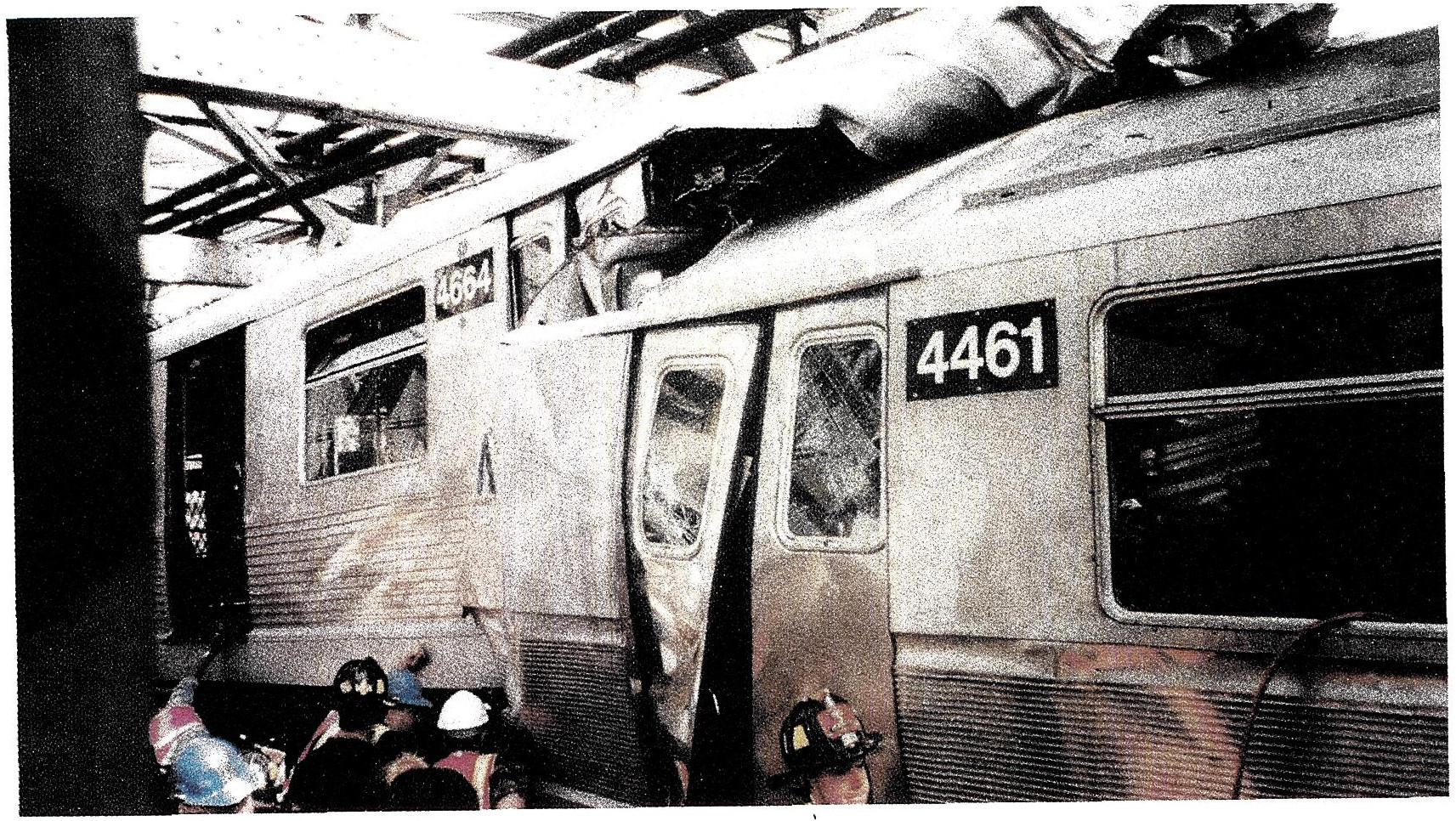 Aftermath of the 1995 Williamsburg Bridge collision